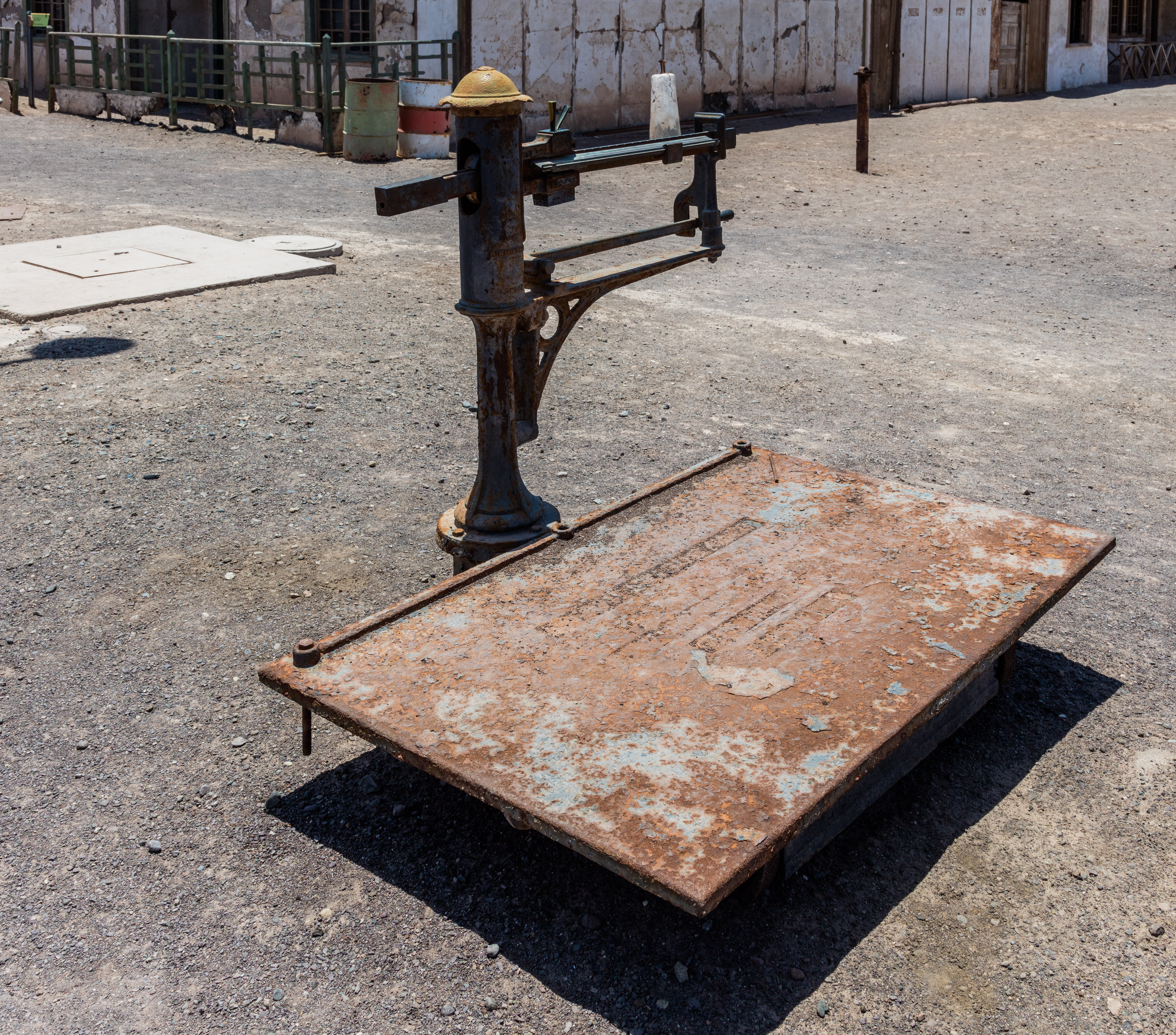 Humberstone and Santa Laura Saltpeter Office, Chile